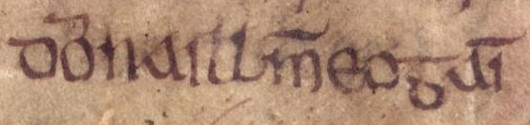 The names of Dyfnwal ab Owain, King of the Cumbrians (died 975) and Owain ap Dyfnwal, King of the Cumbrians (fl. 934) as they appear on folio 25r of Oxford Bodleian Library MS Rawlinson B 502.